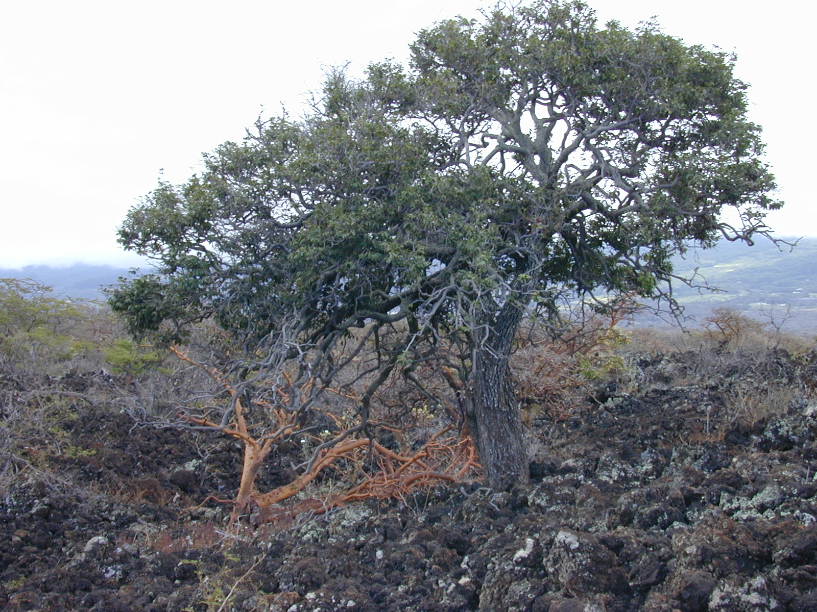 Diospyros sandwicensis (habit). Location: Maui, Puu o Kali